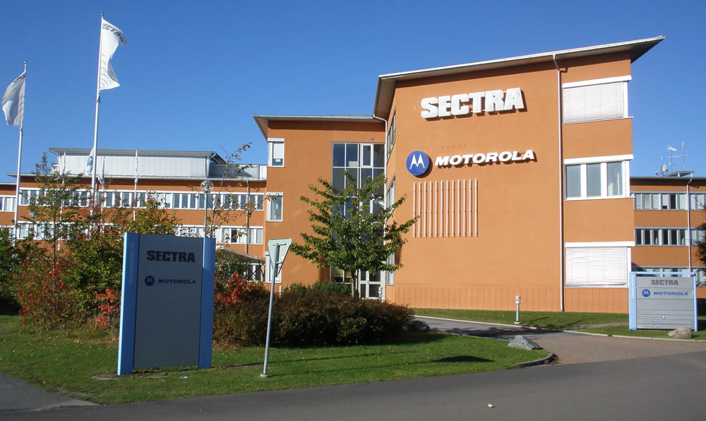 Address Teknikringen 20 i Linköping, Sweden. Head quarters for the swedish based company Sectra AB.